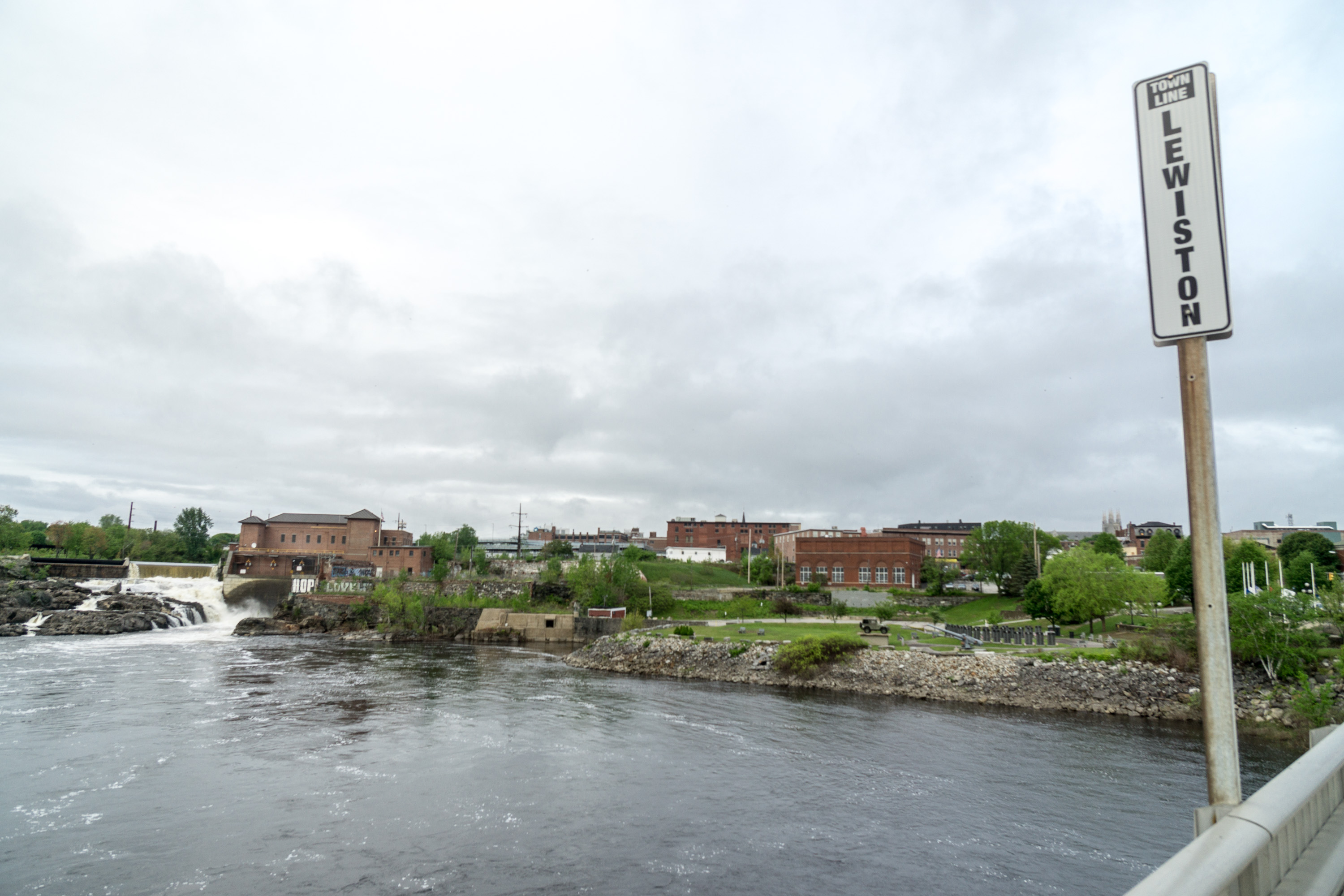 Androscoggin River and Lewiston Falls, Maine. Veterans Park visible on the Lewiston shore.